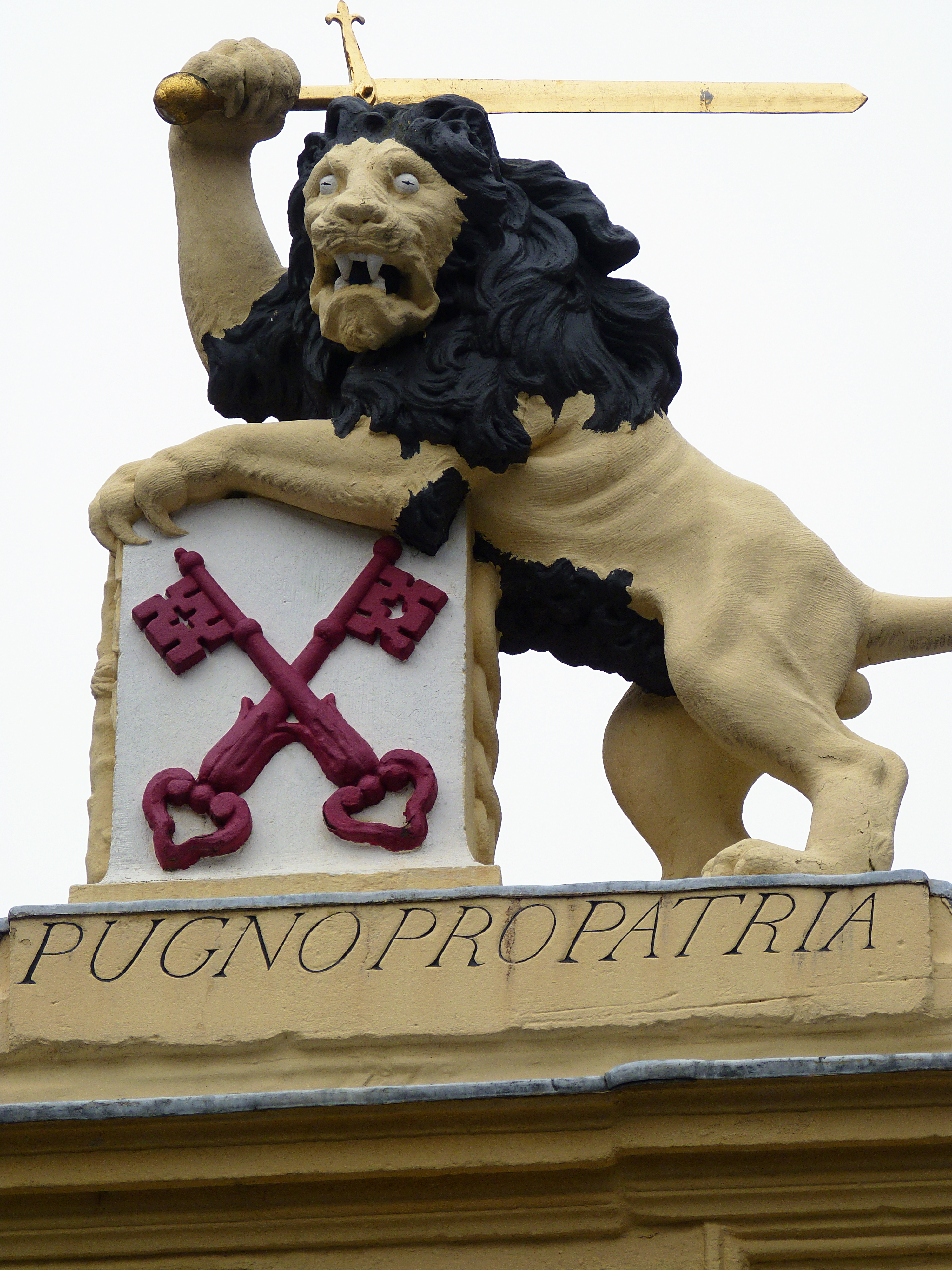 Coat-of-arms of Leiden